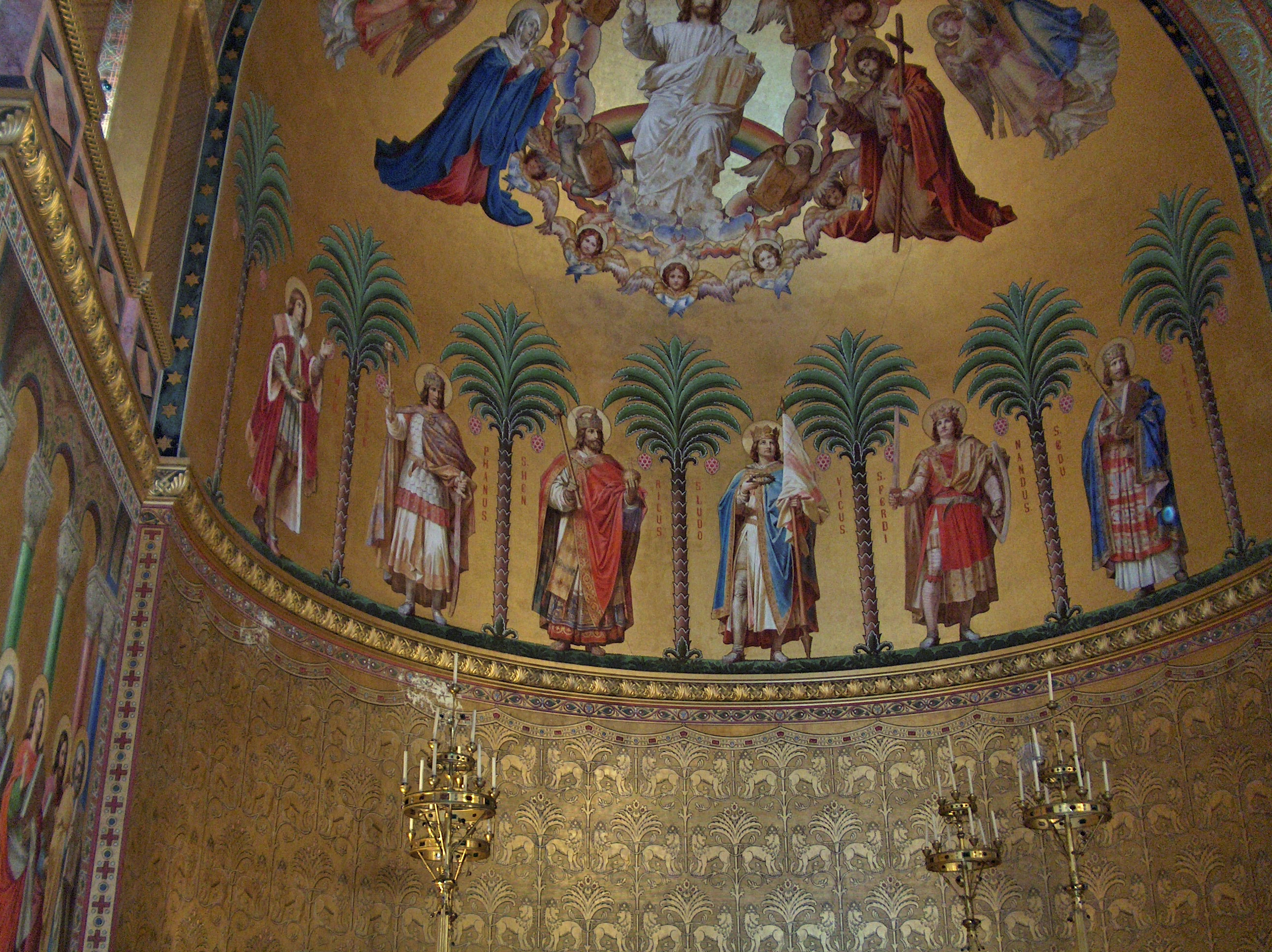 Interior design of Neuschwanstein Castle